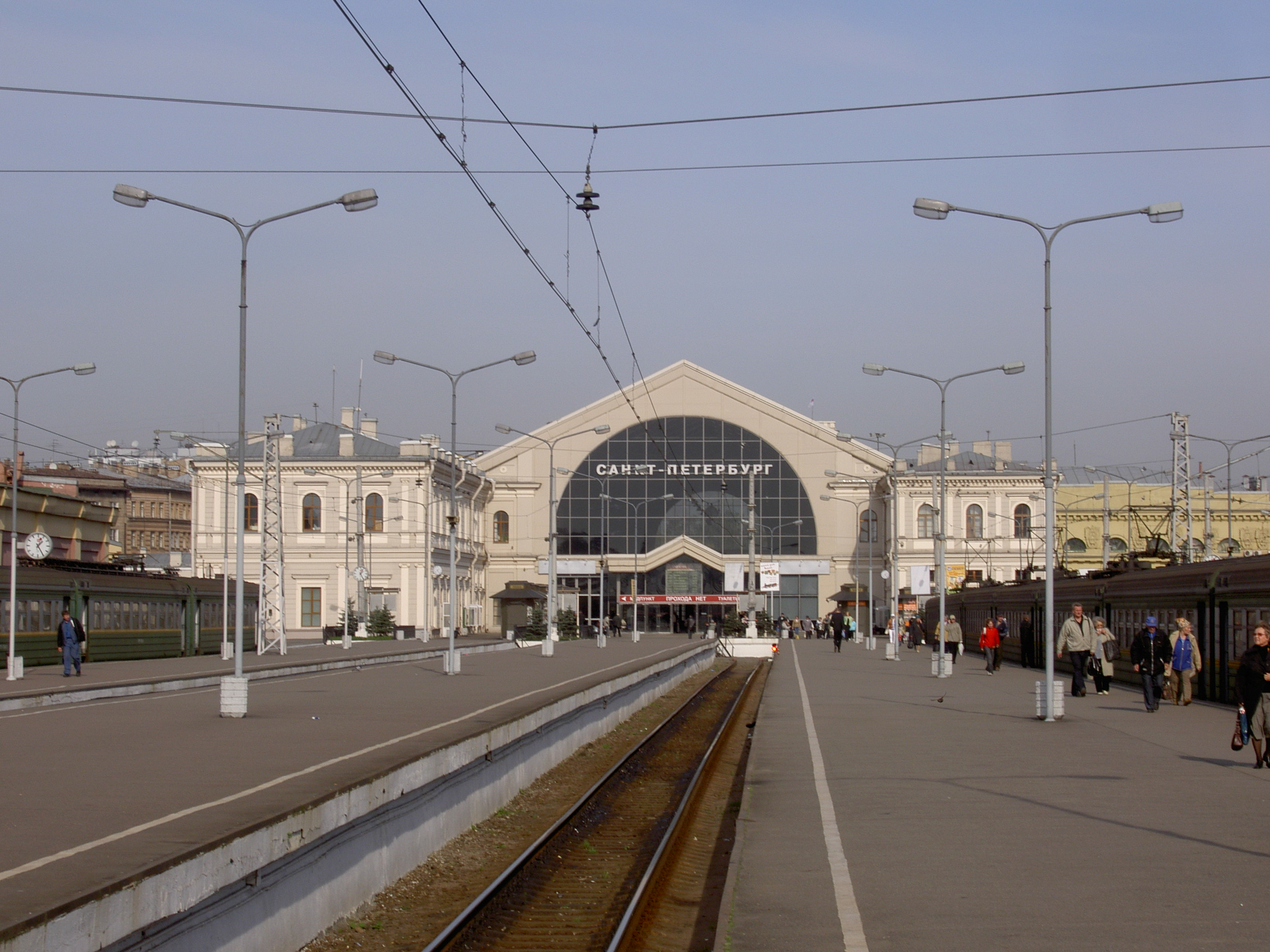 Baltic rail terminal in Saint Petersburg